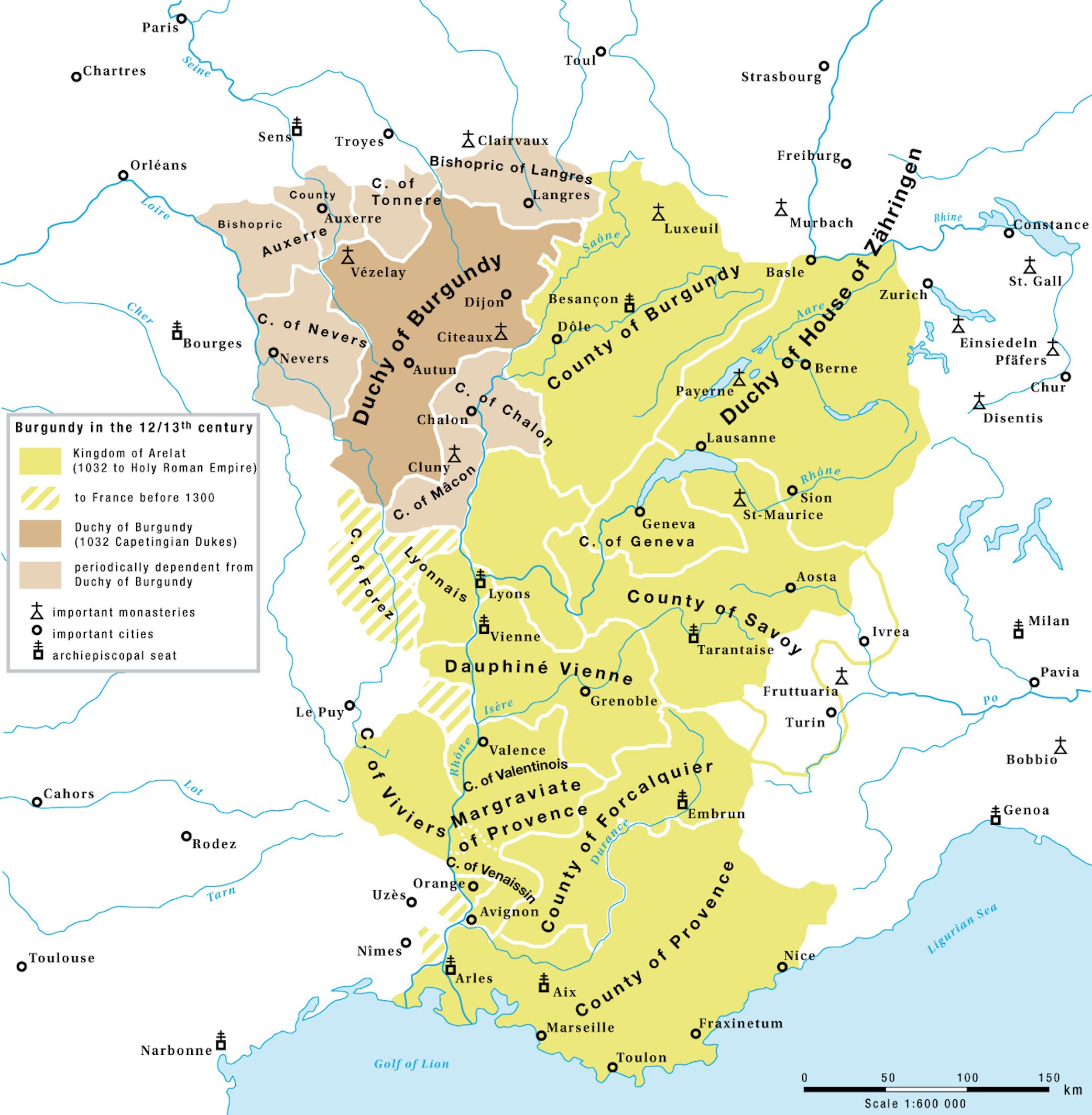 The Kingdom of Arelat and the Capetingian Duchy of Burgundy in the 12/13th century